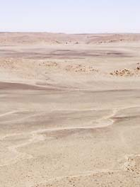 Sahara (Algeria)